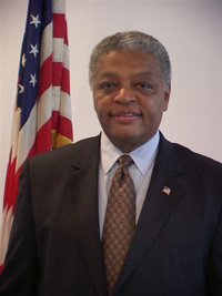 James D. McGee. As of 2008, the U.S. Ambassador to Zimbabwe.